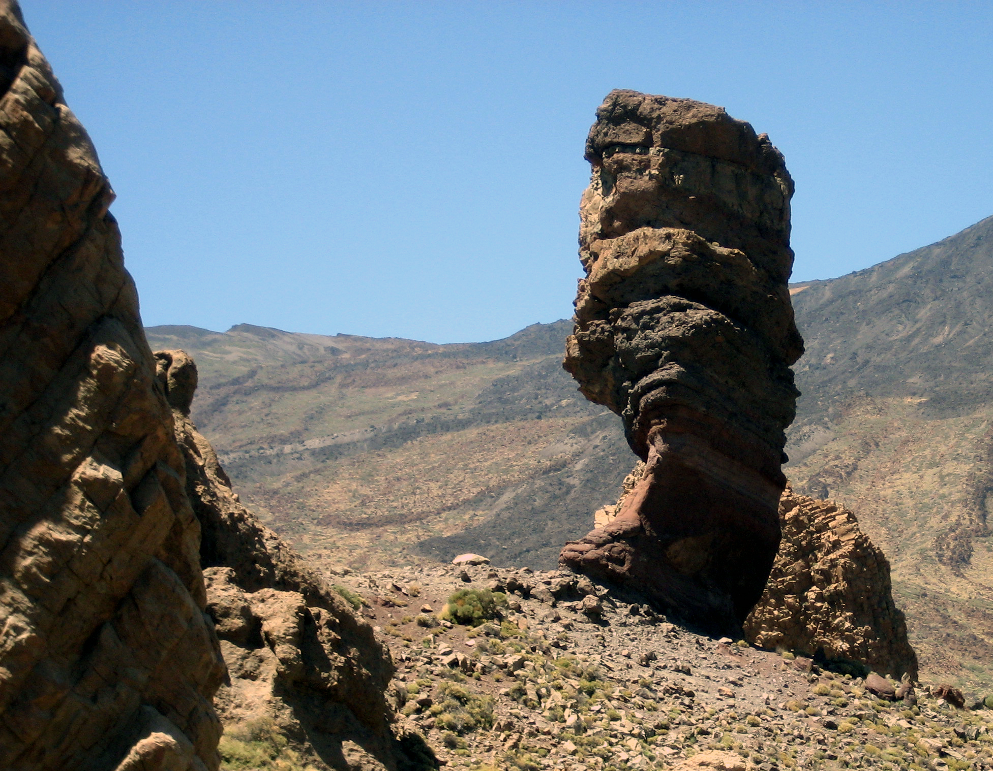 Roque Cinchao. Teide National Park, Tenerife, Canary Islands, Spain.